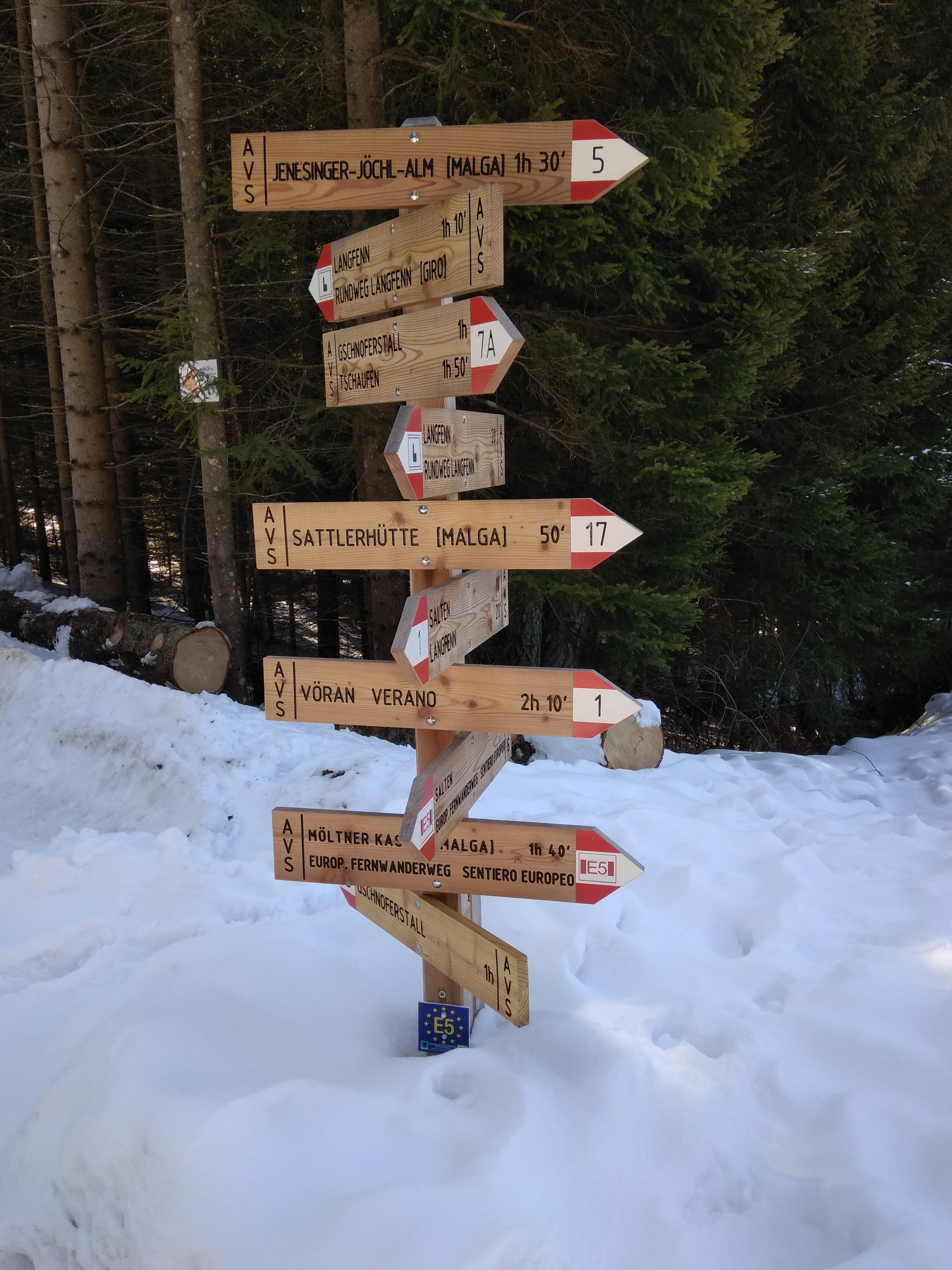 Bilingual direction signposts within the South Tyrolean mountain's region